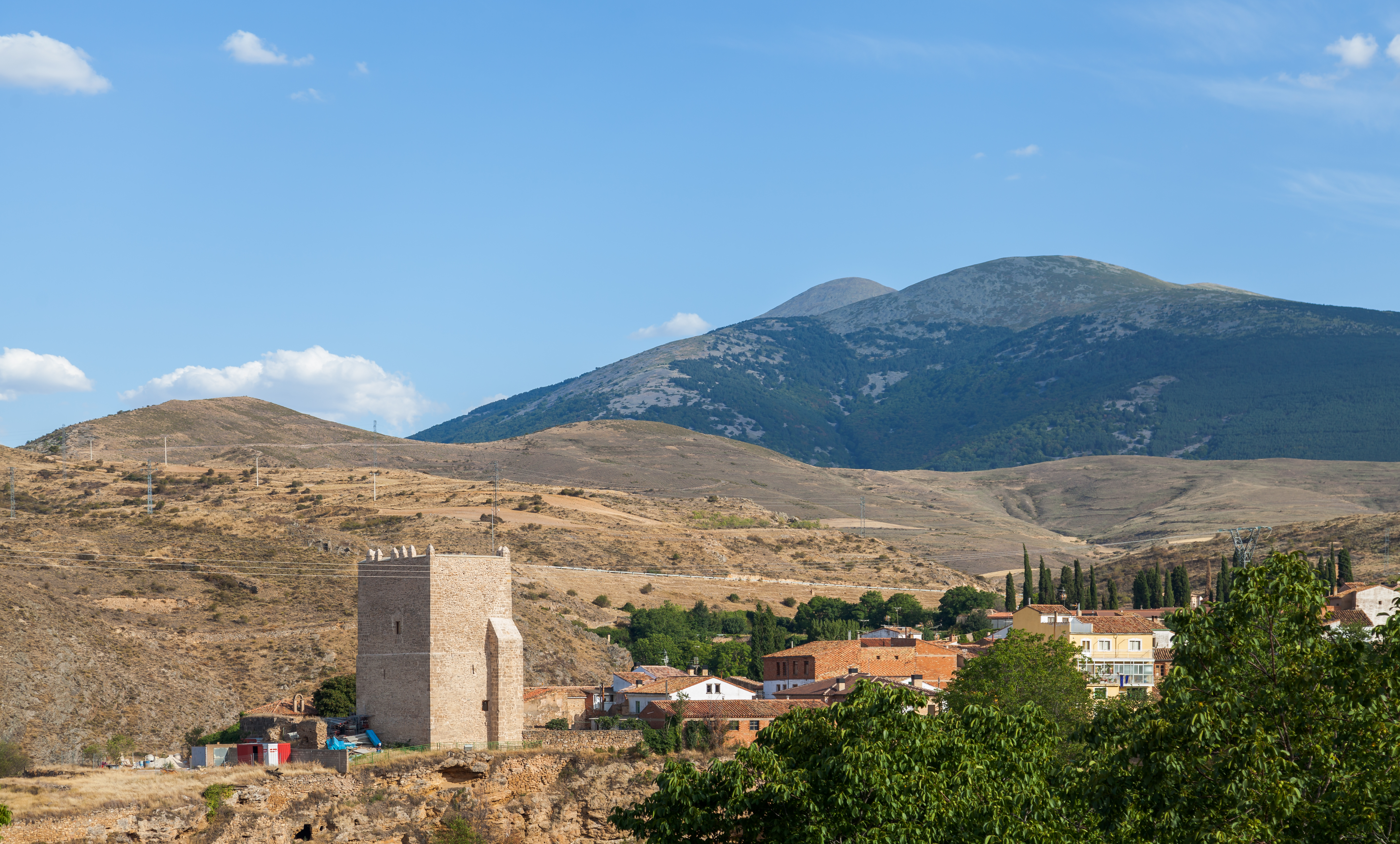 Muela Tower, Ágreda, Spain